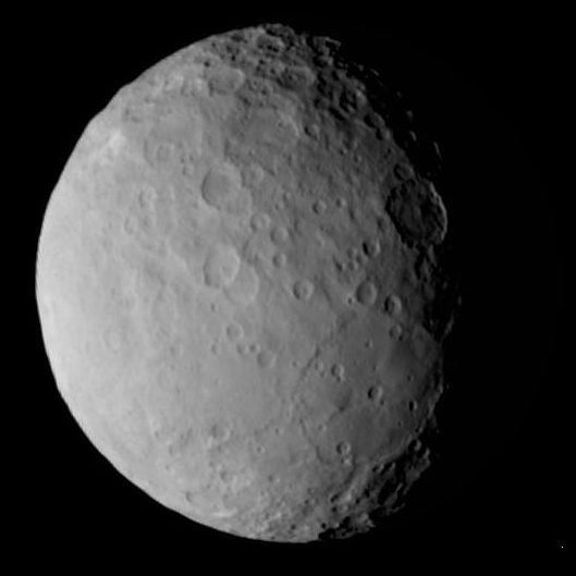 PIA18925: 'Pancake' Feature on Ceres Some might see a pancake, and others a sand dollar, in this new image from NASA's Dawn mission. Astronomers are puzzling over a mysterious large circular feature located south of the equator and slightly to the right of center in this view. This basin, nearly 186 miles (300 kilometers) across, is not as deep as would be expected for an impact crater, and appears to contain low-relief mounds. This image was taken on Feb. 19, 2015 from a distance of nearly 29,000 miles (46,000 kilometers) from Ceres. Dawn's mission is managed by NASA's Jet Propulsion Laboratory, Pasadena, California, for NASA's Science Mission Directorate in Washington. Dawn is a project of the directorate's Discovery Program, managed by NASA's Marshall Space Flight Center in Huntsville, Alabama. The University of California, Los Angeles, is responsible for overall Dawn mission science. Orbital ATK, Inc., in Dulles, Virginia, designed and built the spacecraft. The German Aerospace Center, the Max Planck Institute for Solar System Research, the Italian Space Agency and the Italian National Astrophysical Institute are international partners on the mission team. For a complete list of acknowledgments